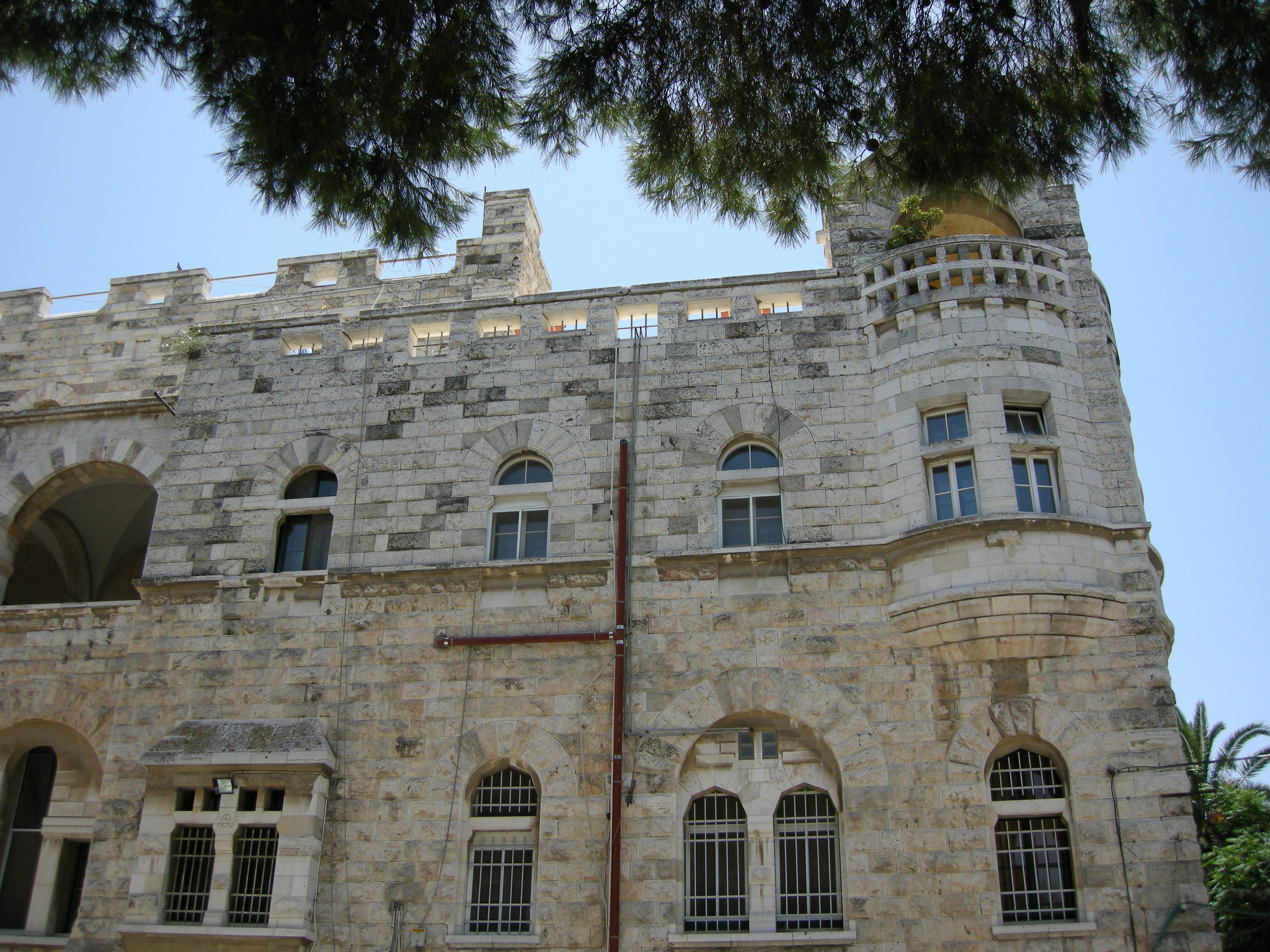 Siur_wikipedia_in__Jerusalem